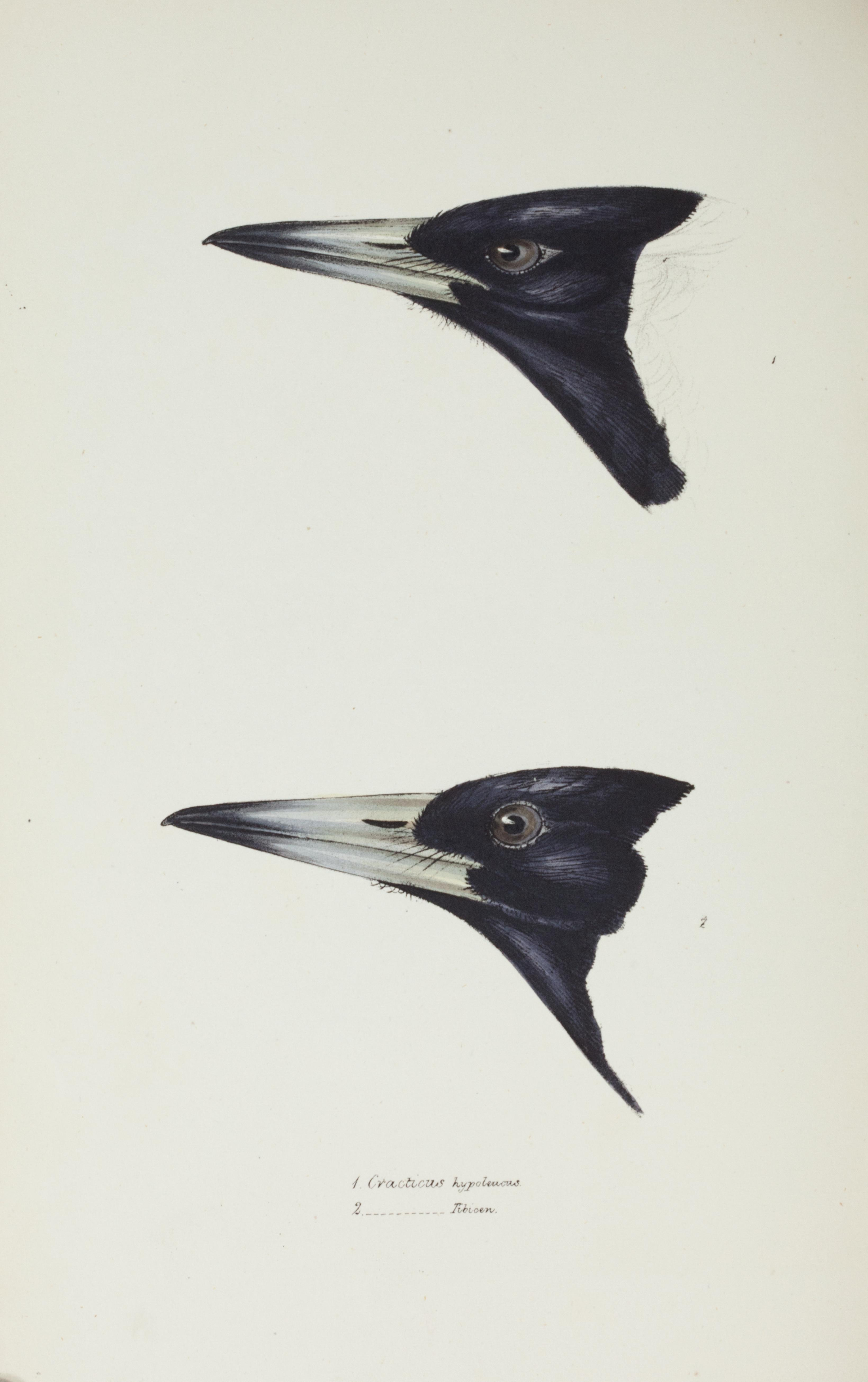 A synopsis of the birds of Australia, and the adjacent Islands /